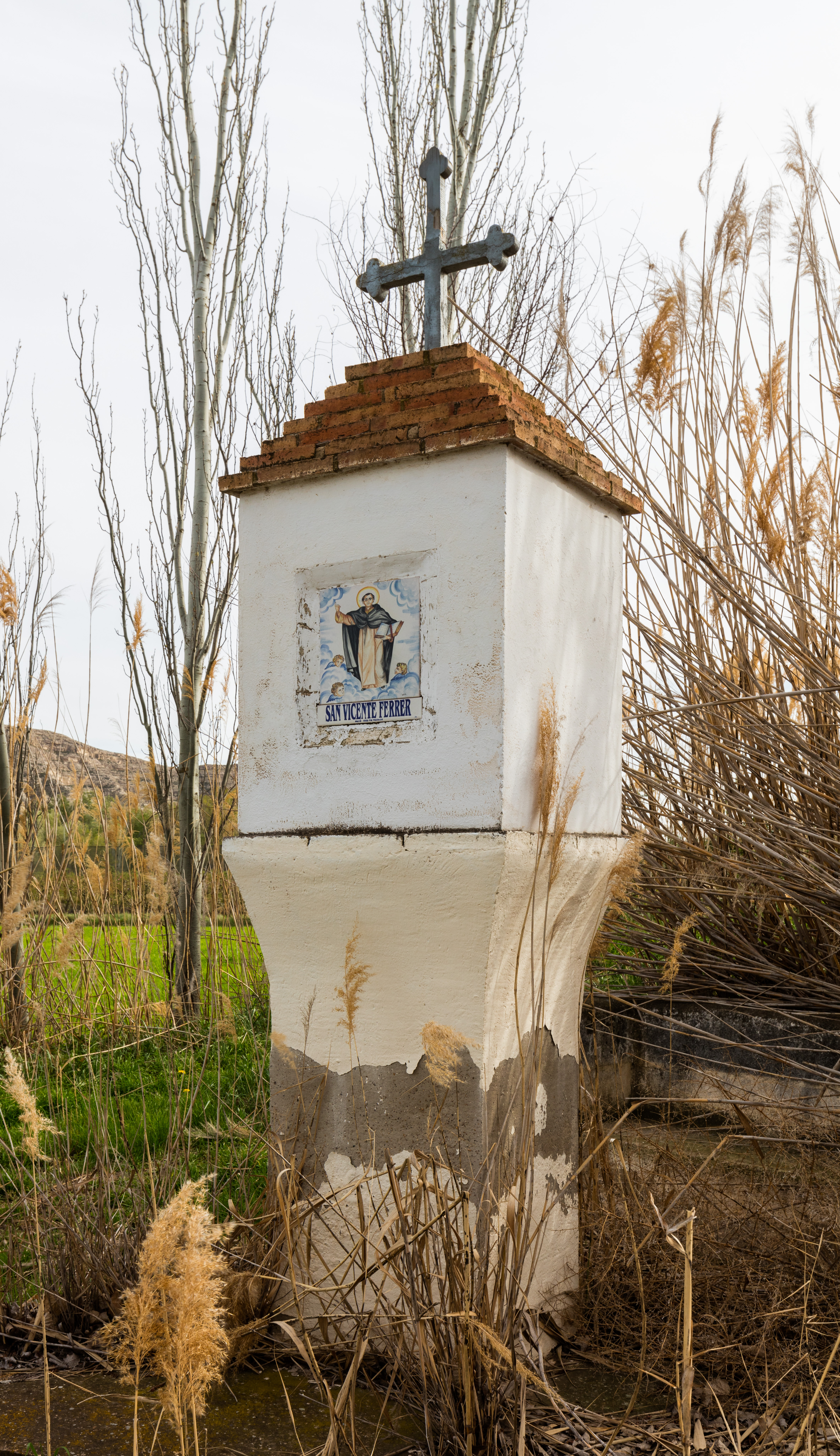 Wayside cross of St Vicente, Rueda de Jalón, Zaragoza, Spain